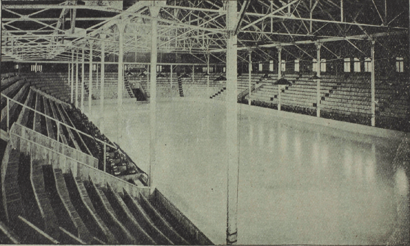 Arena Hockey Rink of Montreal